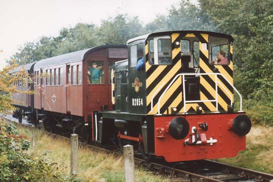 Yorkshire Engine Co. 0-4-0DH 2813 of 1960 (British Rail Class 02 D2854) hauling a passenger train on the Middleton Railway. 1994 Photographer - A.M.Hurrell Camera - Minolta X300 (35mm film) Modified - Scanned from Print. File size and definition changed using Adobe Photoshop 5.0LE